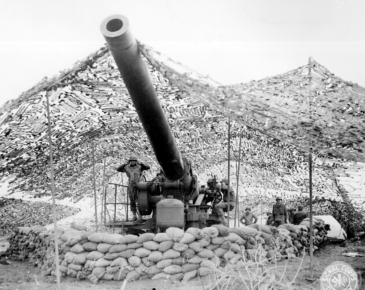 Front view of 240mm howitzer of Battery `B', 697th Field Artillery Battalion, just before firing into German held territory. Mignano area, Italy. January 30, 1944